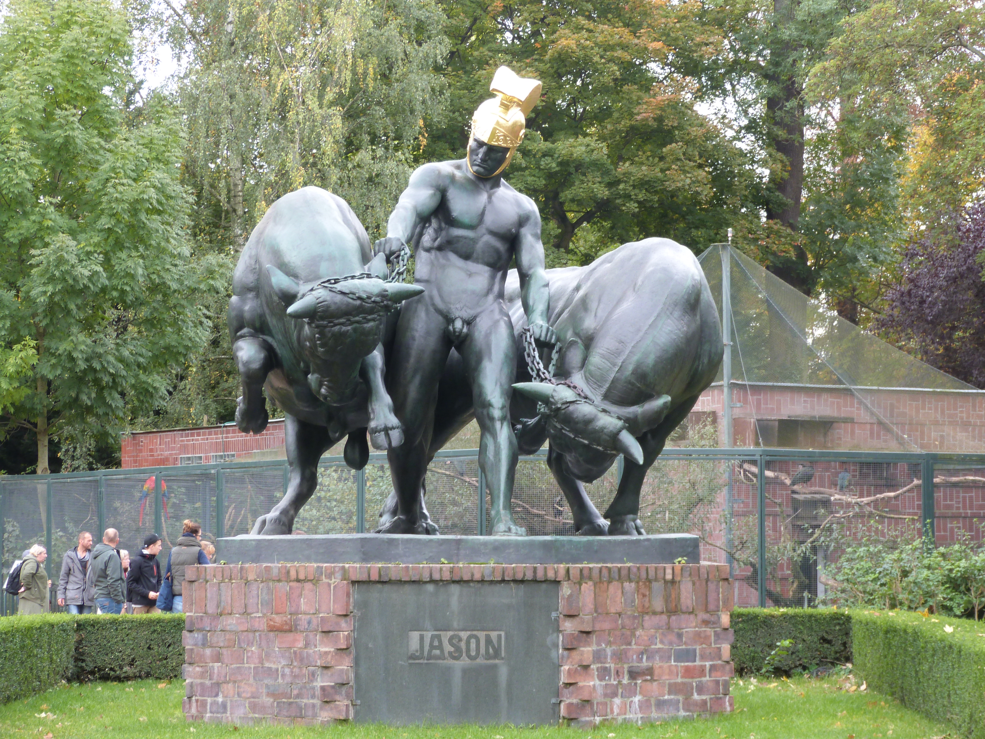 Jason monument in the Leipzig Zoo